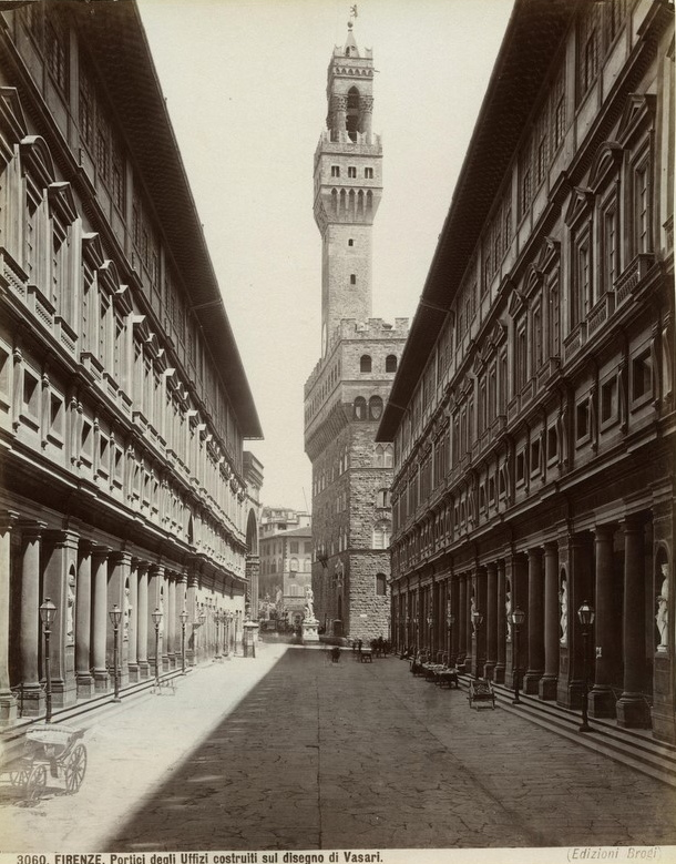 Giacomo Brogi (1822-1881) - "Florence - Arcades of the Uffizi, built upon a project by Vasari". Catalogue # 3060 (bis).